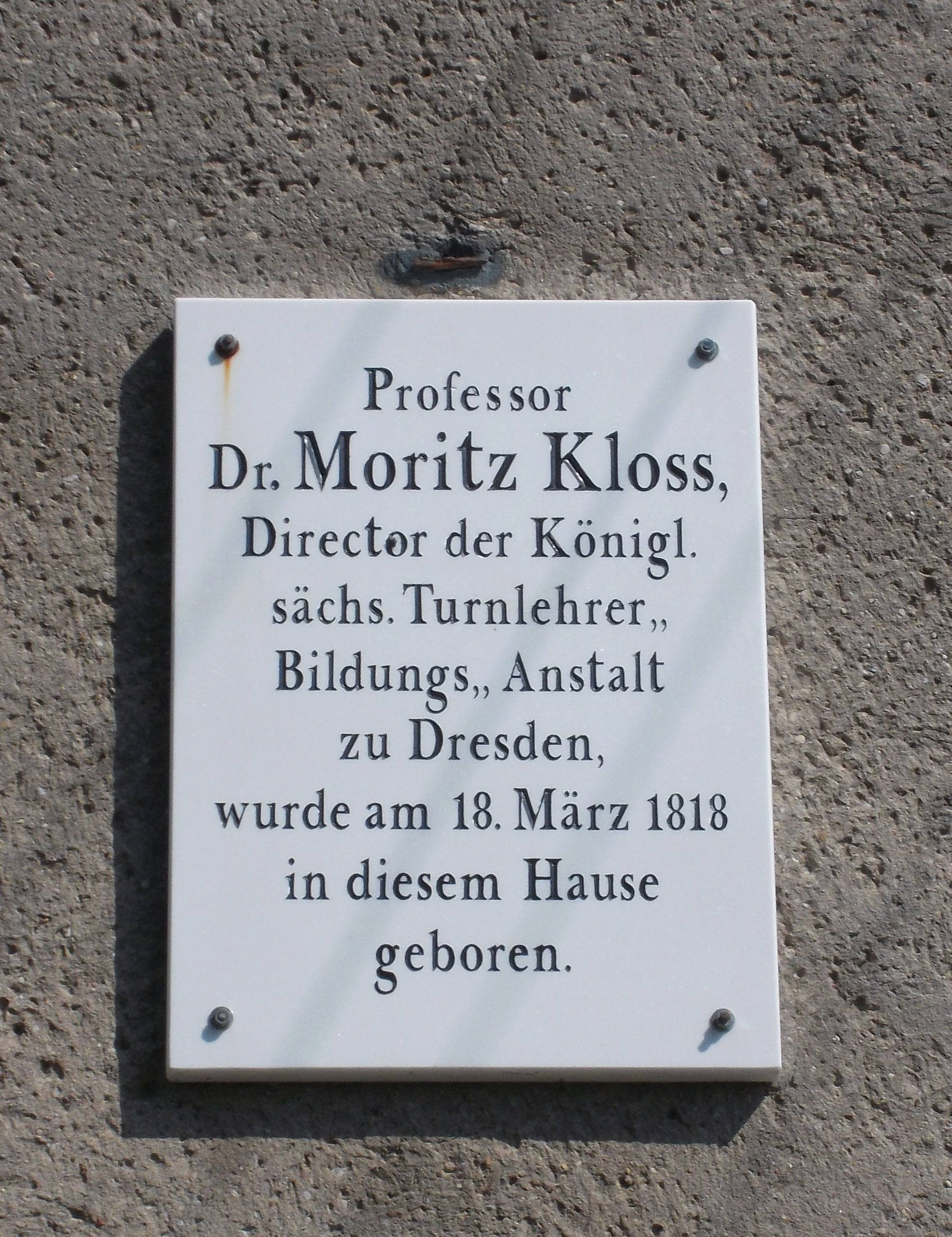 Birthplace of the educationalist Moritz Kloss (1818-1881) in Krumpa (Braunsbedra, district: Saalekreis, Saxony-Anhalt)